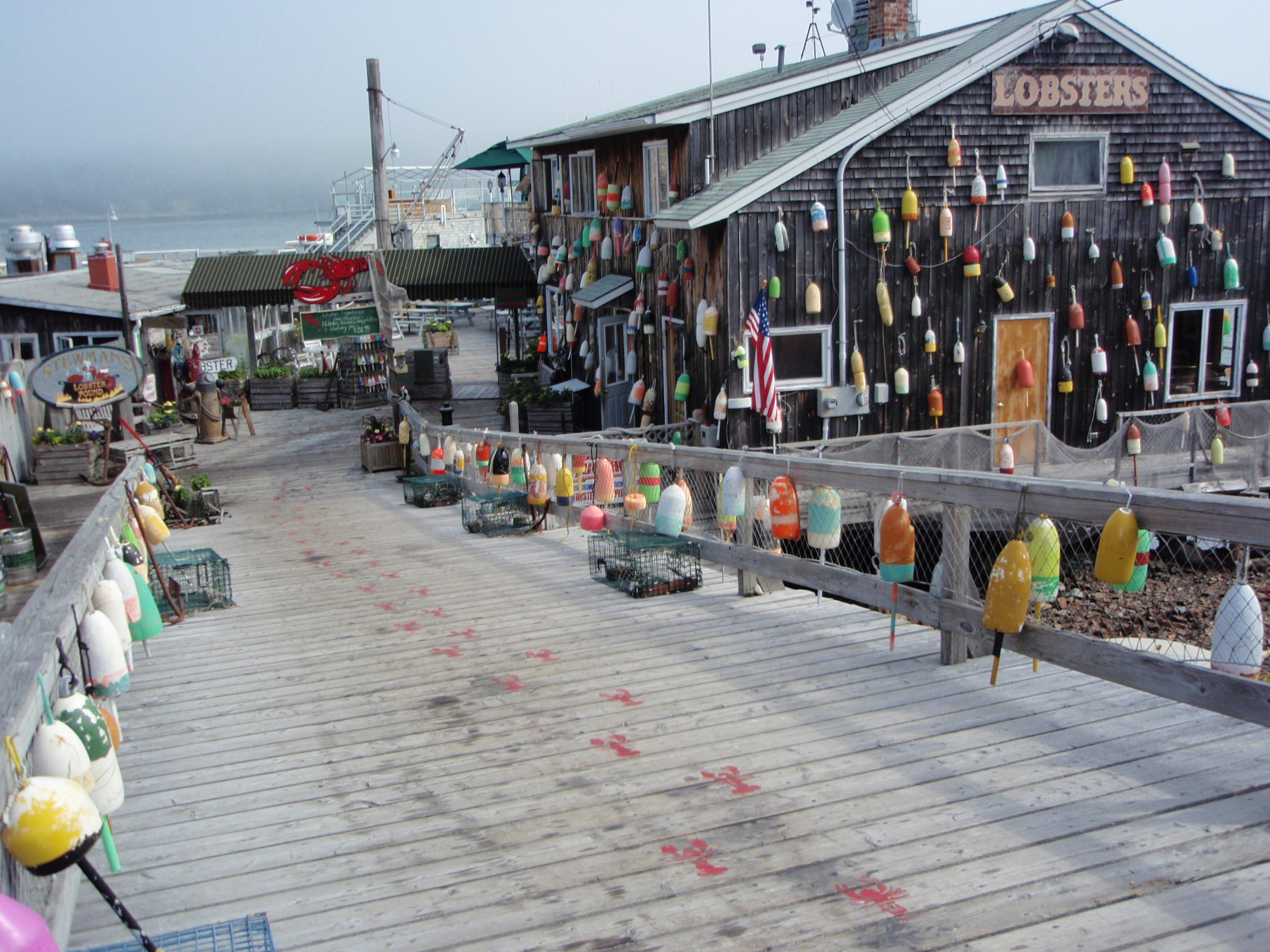 Lobster restaurant in Bar Harbor, Maine